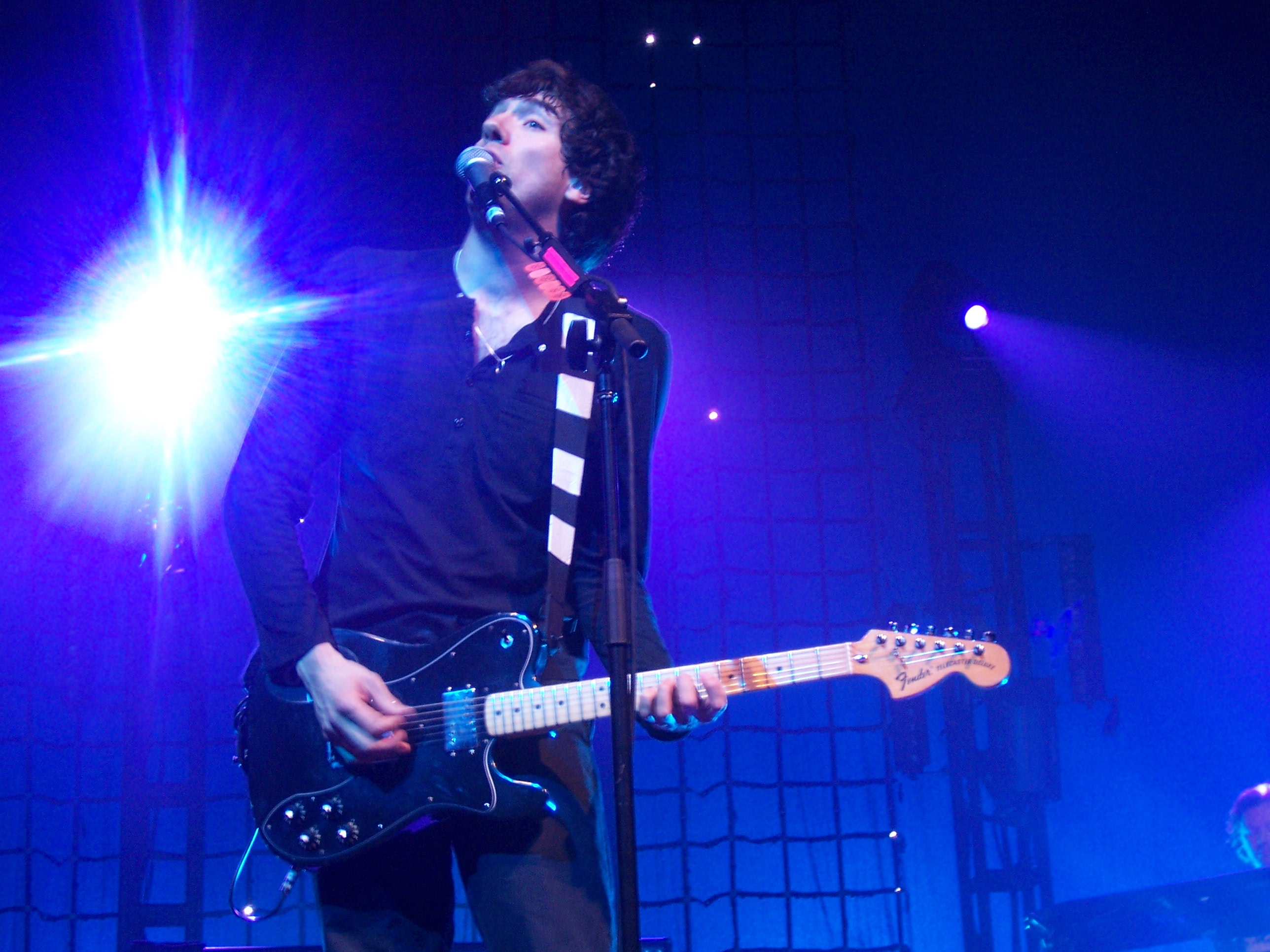 Snow Patrol's lead singer Gary Lightbody on stage at MSG in 2007.